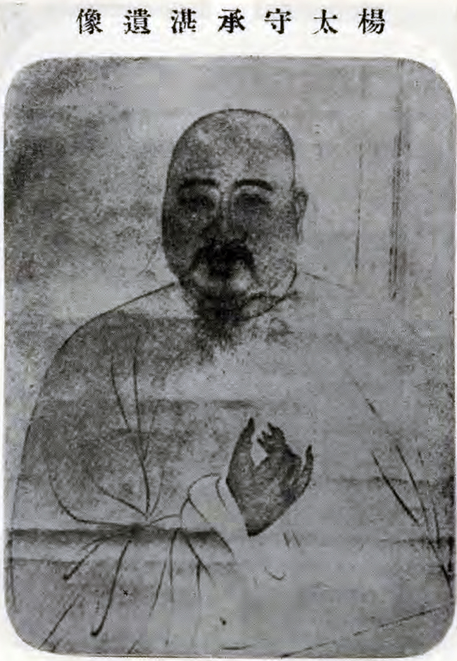 Yang Chengzhan, Chinese Jinshi, politician. (Qing dynasty)